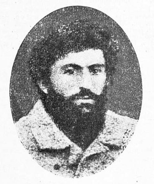 Georgian student activist Iakov Isarlov (Isarlishvili) at Kronstdadt prison. 1861.